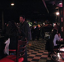 Inside the Stone Pony it is more spacious than the outside would suggest.